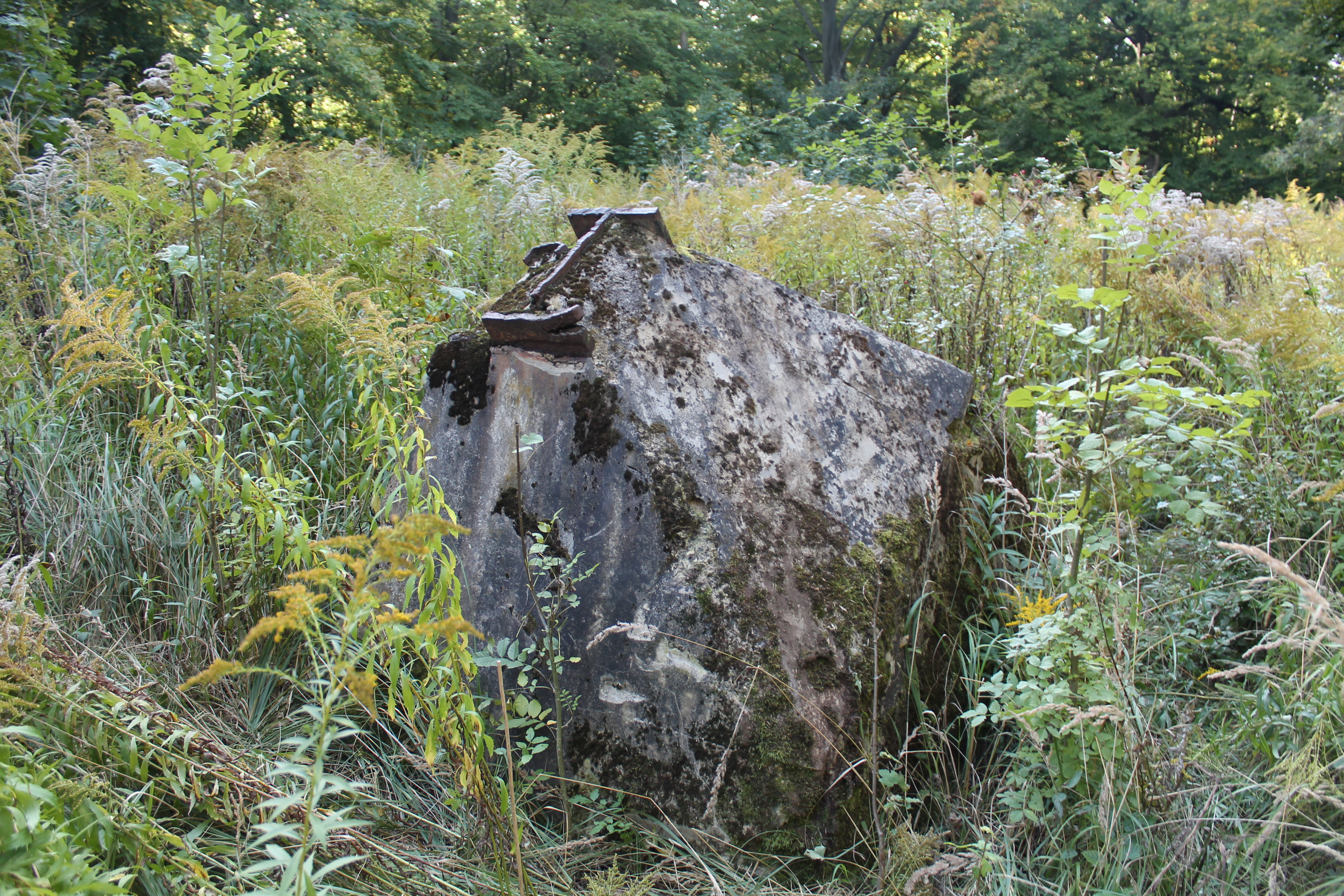 Foundation of Ida shaft headframe, Othfresen, Lower Saxony, Germany.